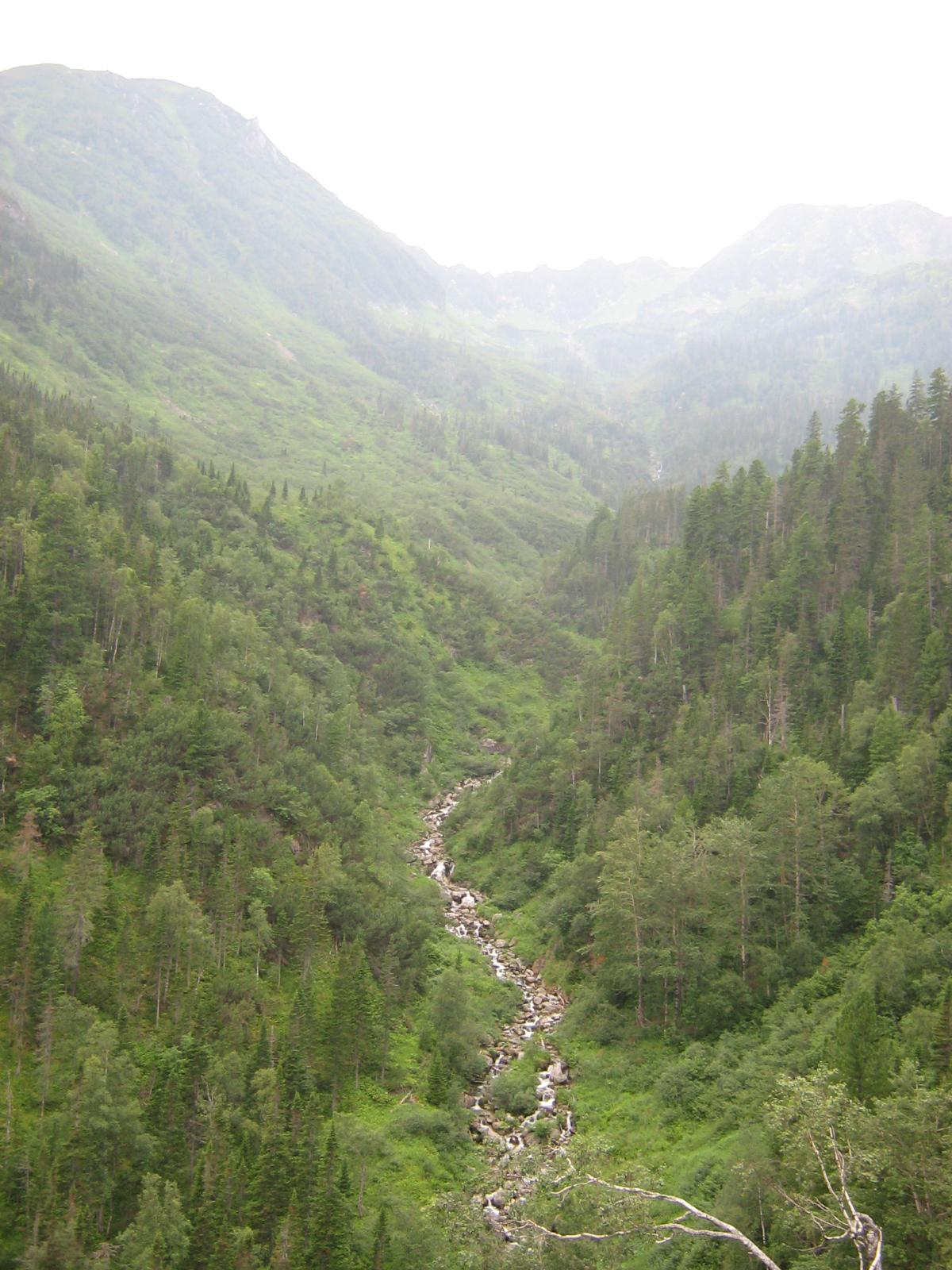 Mixed south Siberian taiga forest with Abies sibirica, Picea obovata, and Pinus sylvestris. Talcinka stream, Khamar -Daban, Slyudyansky District, Irkutskaya oblast, Russia